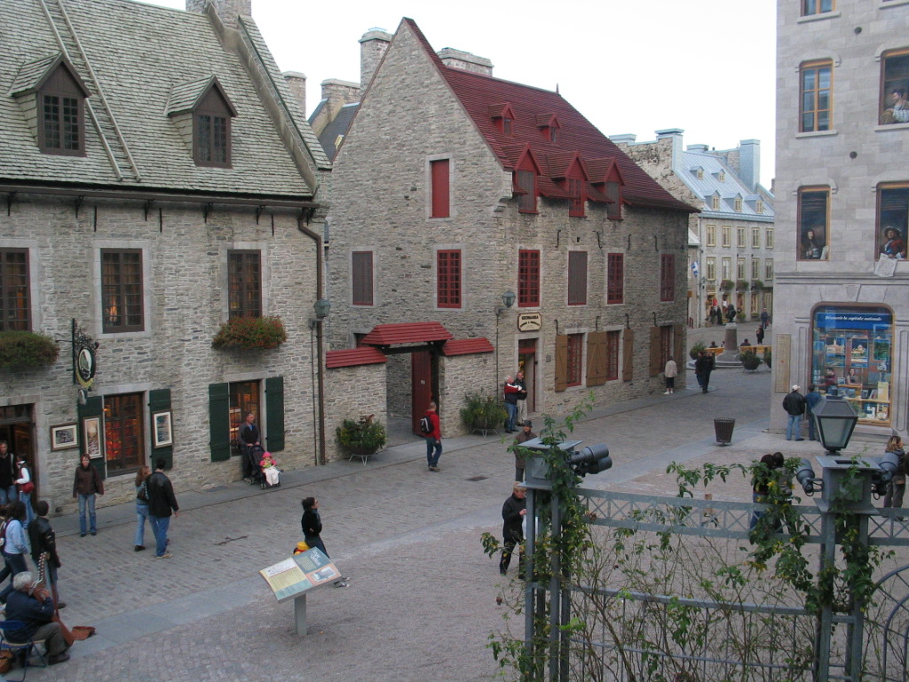 The picturesque and fairy-tale like Royal Square of the Lower city of Quebec City